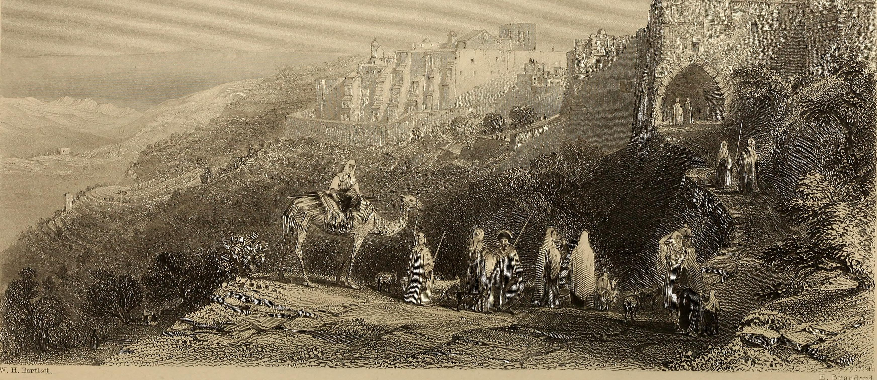 Title: The pathways and abiding places of our Lord; Year: 1851 (1850s) Authors: Wainwright, Jonathan Mayhew, 1792-1854 Subjects: Publisher: New York, D. Appleton & company Philadelphia, G. S. Appleton Text Appearing Before Image: ' Text Appearing After Image: BETHLEHEM, But thou, Beth-ieliem Ephratah, though thou be little among the thousands of Judah,vet out of thee shall He come forth unto me that is to be Ruler in Israel; whose goings forthhave been from of old, from everlasting.—Micah v. 2. Upon the side of yonder hill, then, -which rises out of the midst of a fruitfulvalley, is set that little city which cannot be hid from the eyes of the Christiantraveller, nor shut out from the heart of the Christian world. At the distancefrom Jerusalem of twenty stadia, according to Josephus, or two hours by thecomputation of Eastern journeys, or six miles by our measurement, we now lookupon the very place where the most stupendous event in the annals of the worldtook place. Before we enter the gates, let us pause with affectionate reverence,and say to ourselves. This is Bethlehem ! Here was 1 God manifest in the flesh! 2s~o wonder that this little city was named Ephrath, the fruitful; for it hasteemed with Life for the sons of men; that it shoul